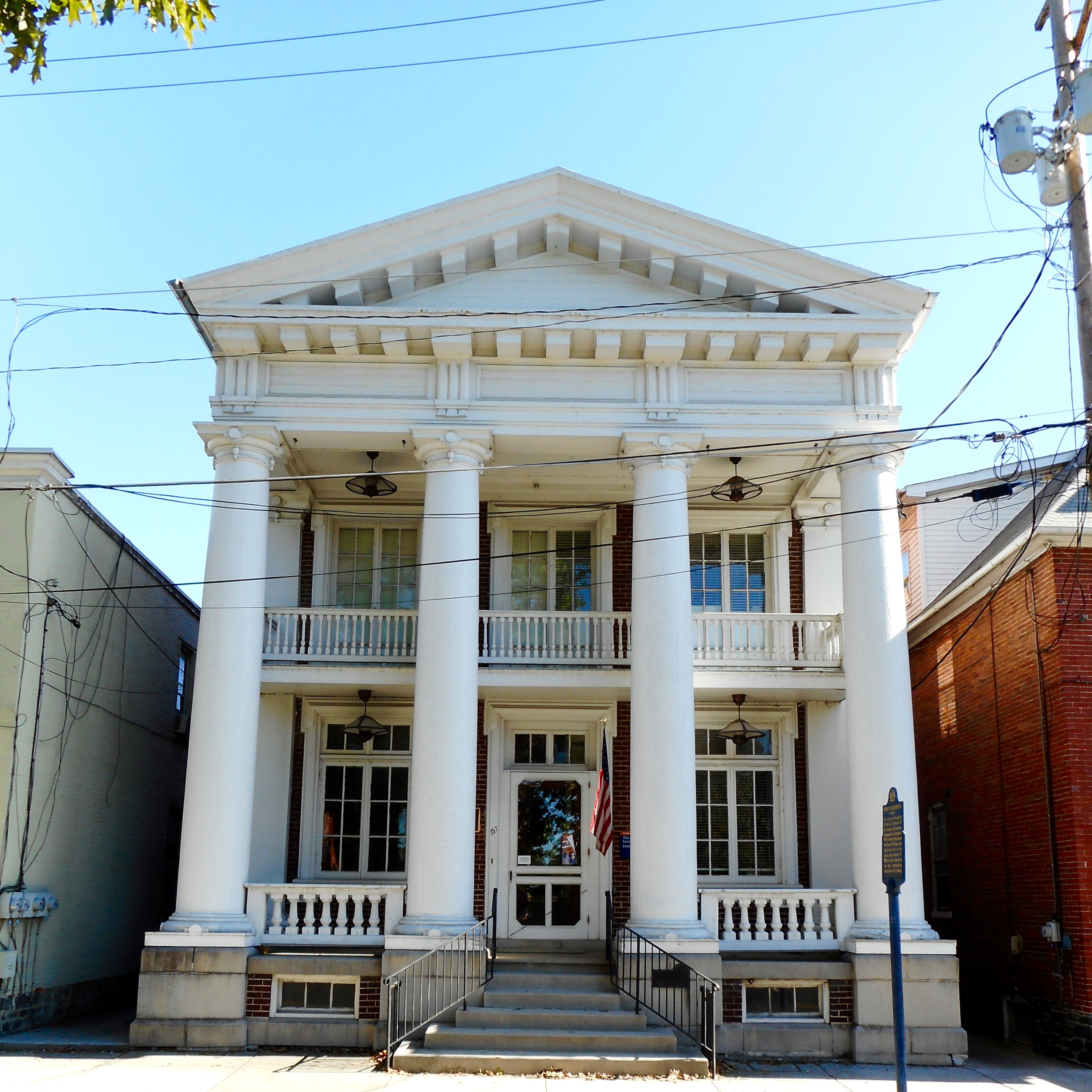 Dwight D.Eisenhower residence in the borough of Gettysburg, Pennsylvania near Gettysburg College